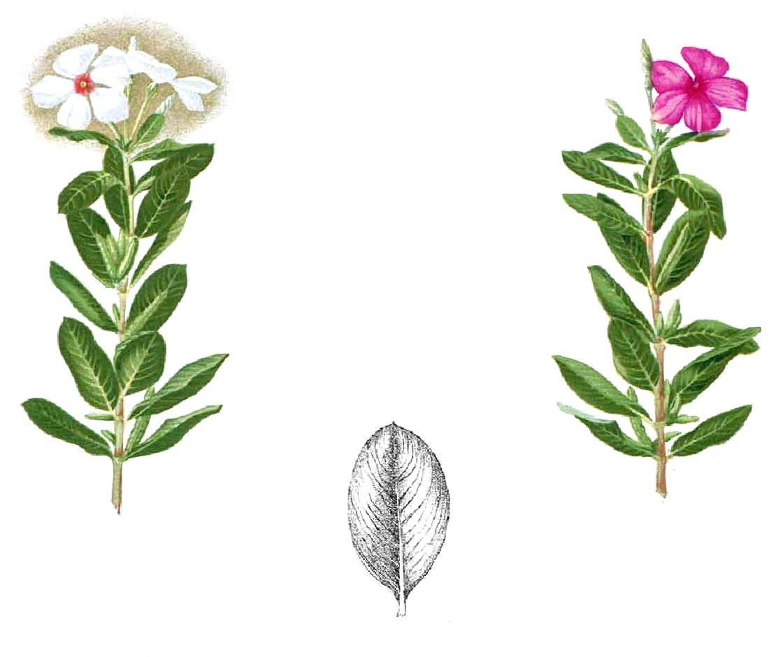 Plate from book